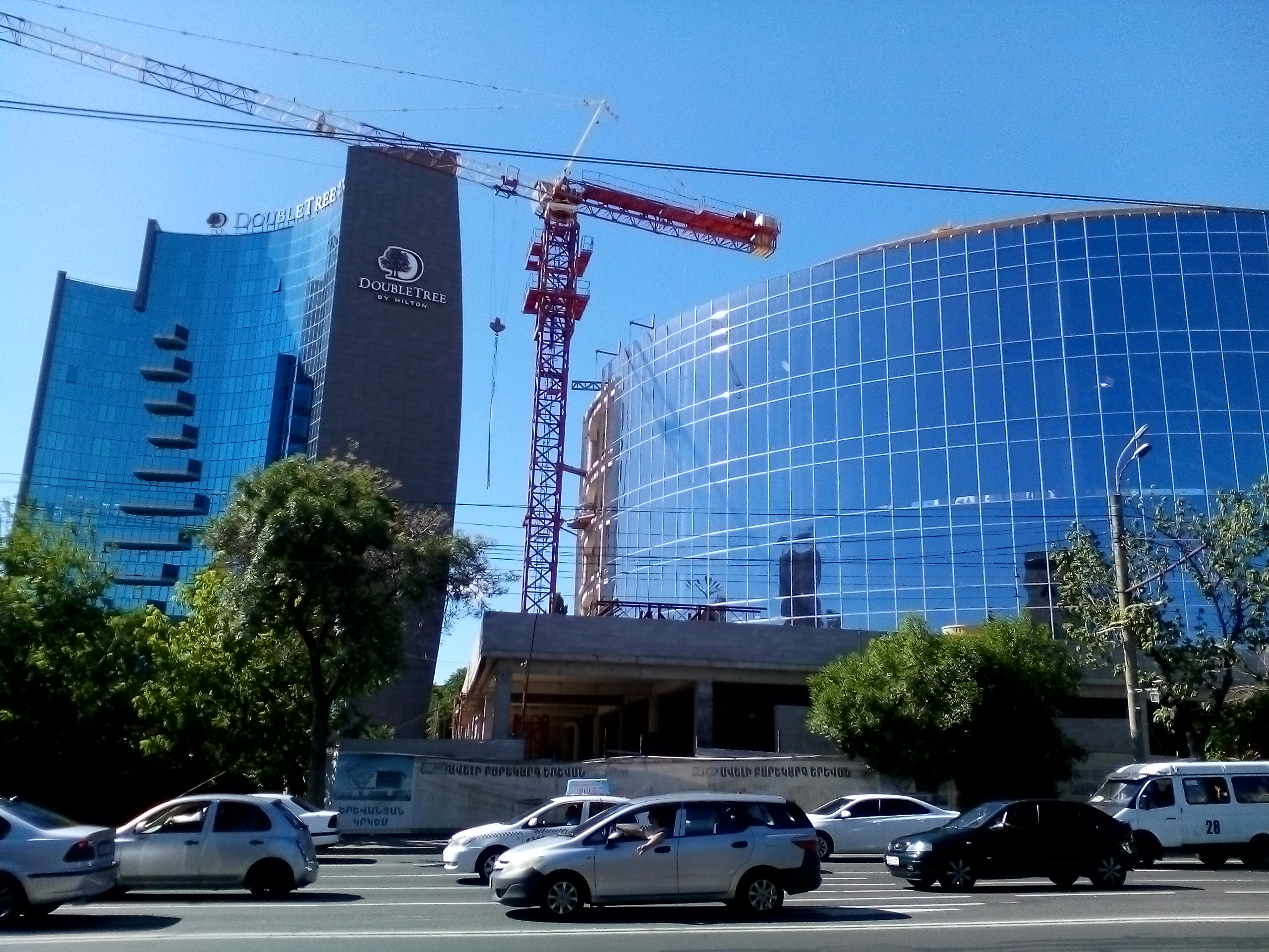 Yerevan Circus